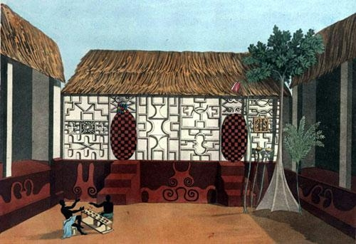 Architecture of Ashantis drawn by Thomas Edward Bowdich in 1817.